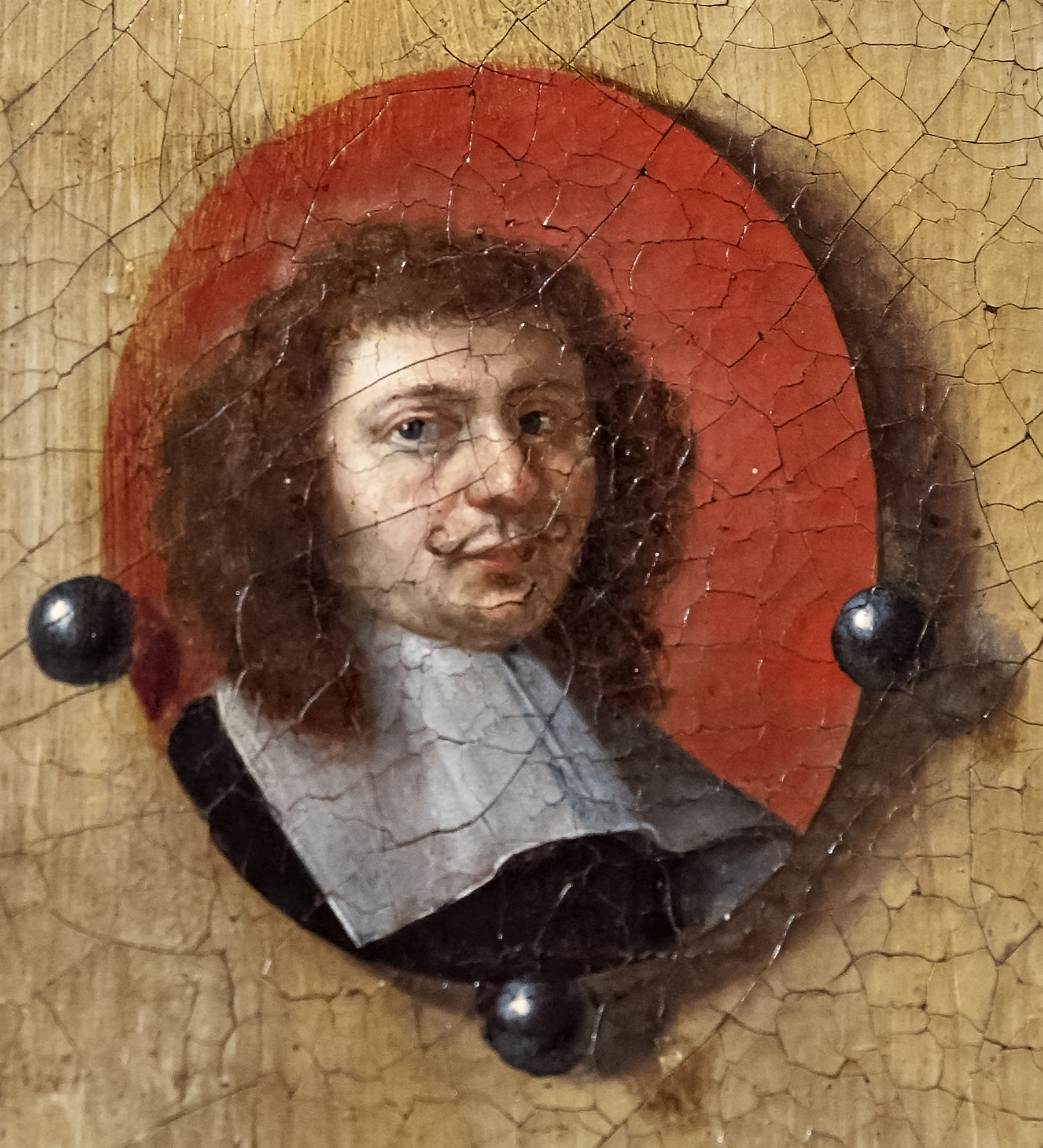 Self-Portrait in Detail of a Still Life in trompe l'oeil